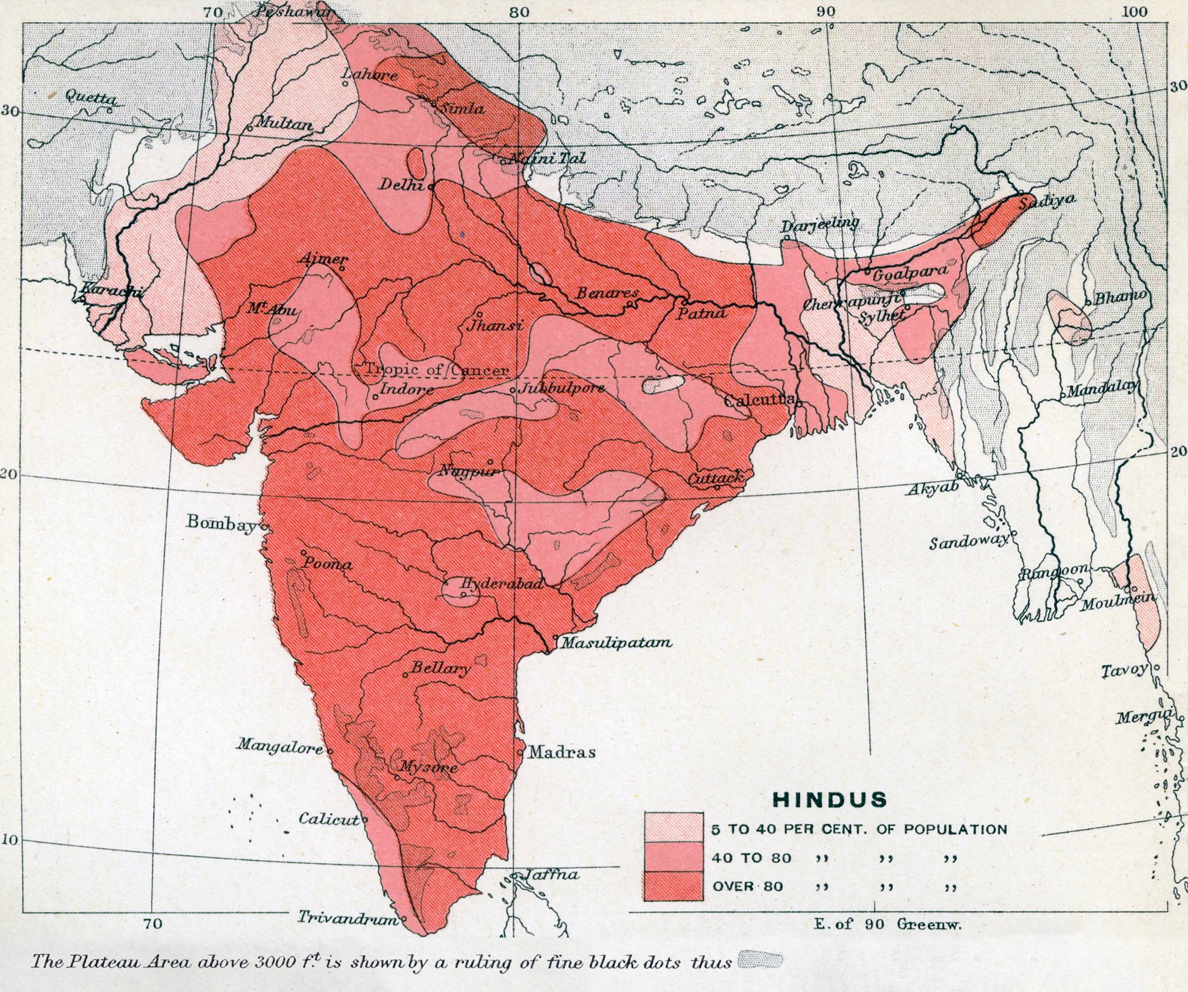 Map "Prevailing Religions of the British Indian Empire, 1909: Hindus"